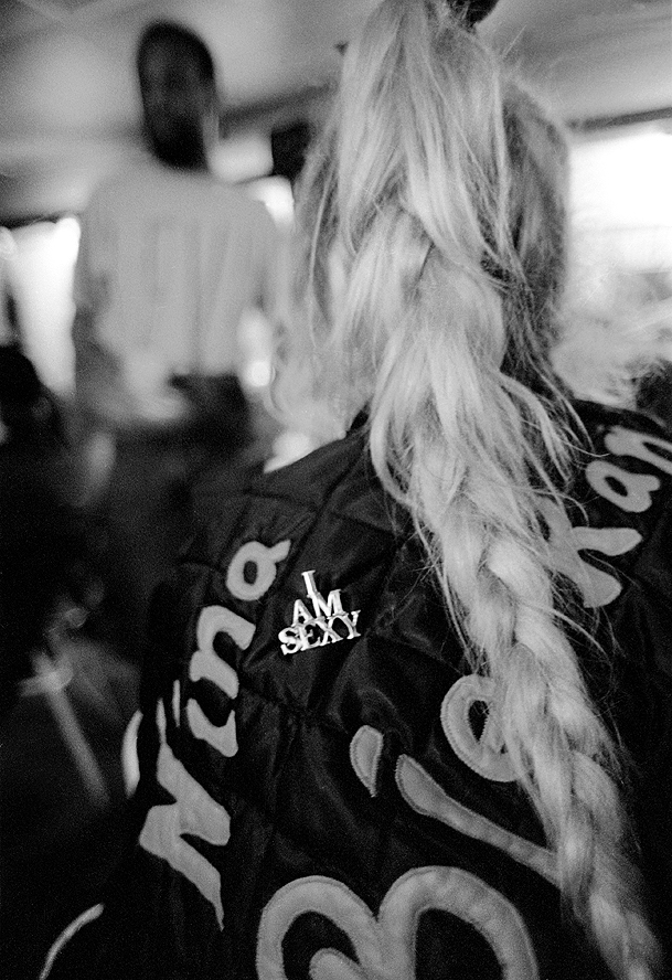 Girl with braid. An example of street photography.